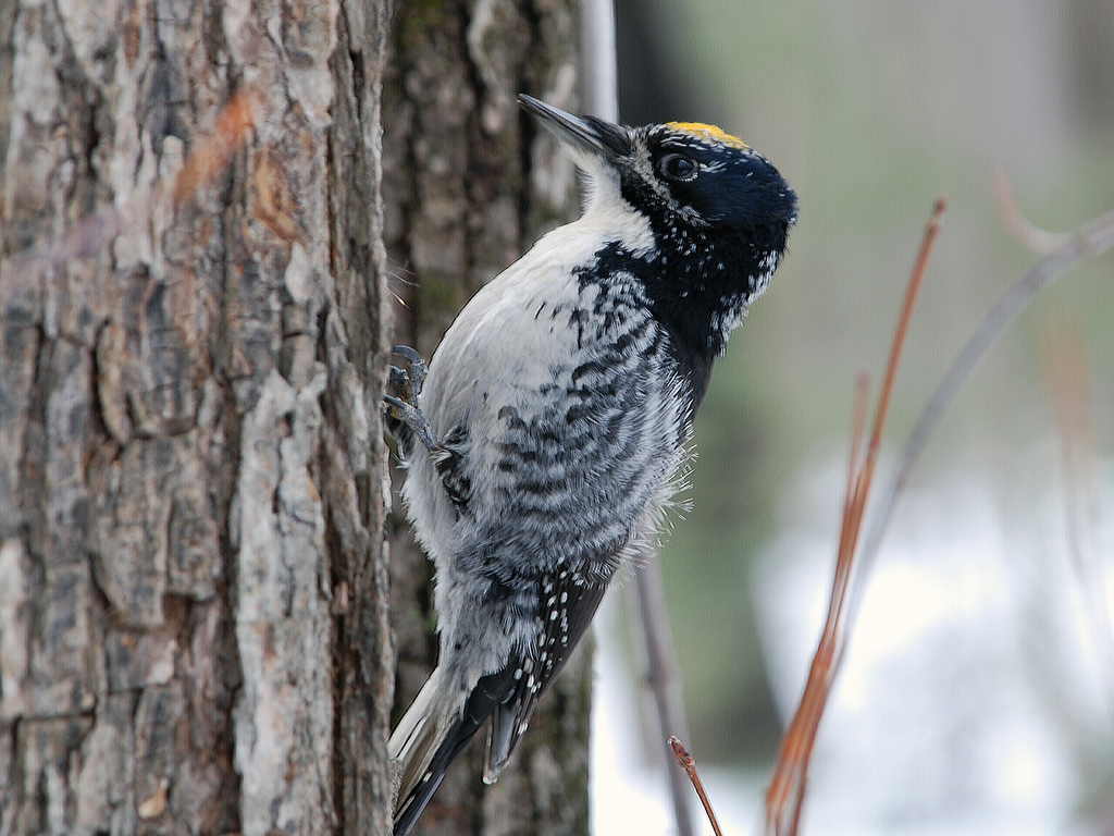 American Three-toed Woodpecker - Picoides dorsalis (Male)